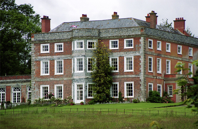 Wootton House, Wootton Fitzpaine, Dorset. The seven-bay south end with a canted bay was added c.1765 by Thomas Rose-Drewe (1740-1815) to an older house. Pevsner remarks that "what saves it from being a bore is the facing of the projecting bay, the parapet and a strip over the upper string with slates that glint like fishscales." Grade II listed. Descended from Rose family to Drewe of Grange, Broadhembury, Devon, thence to Fownes Luttrell, thence to Hood.